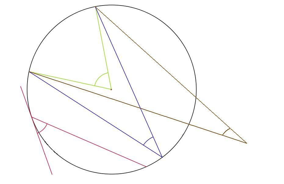 Angles in the circle